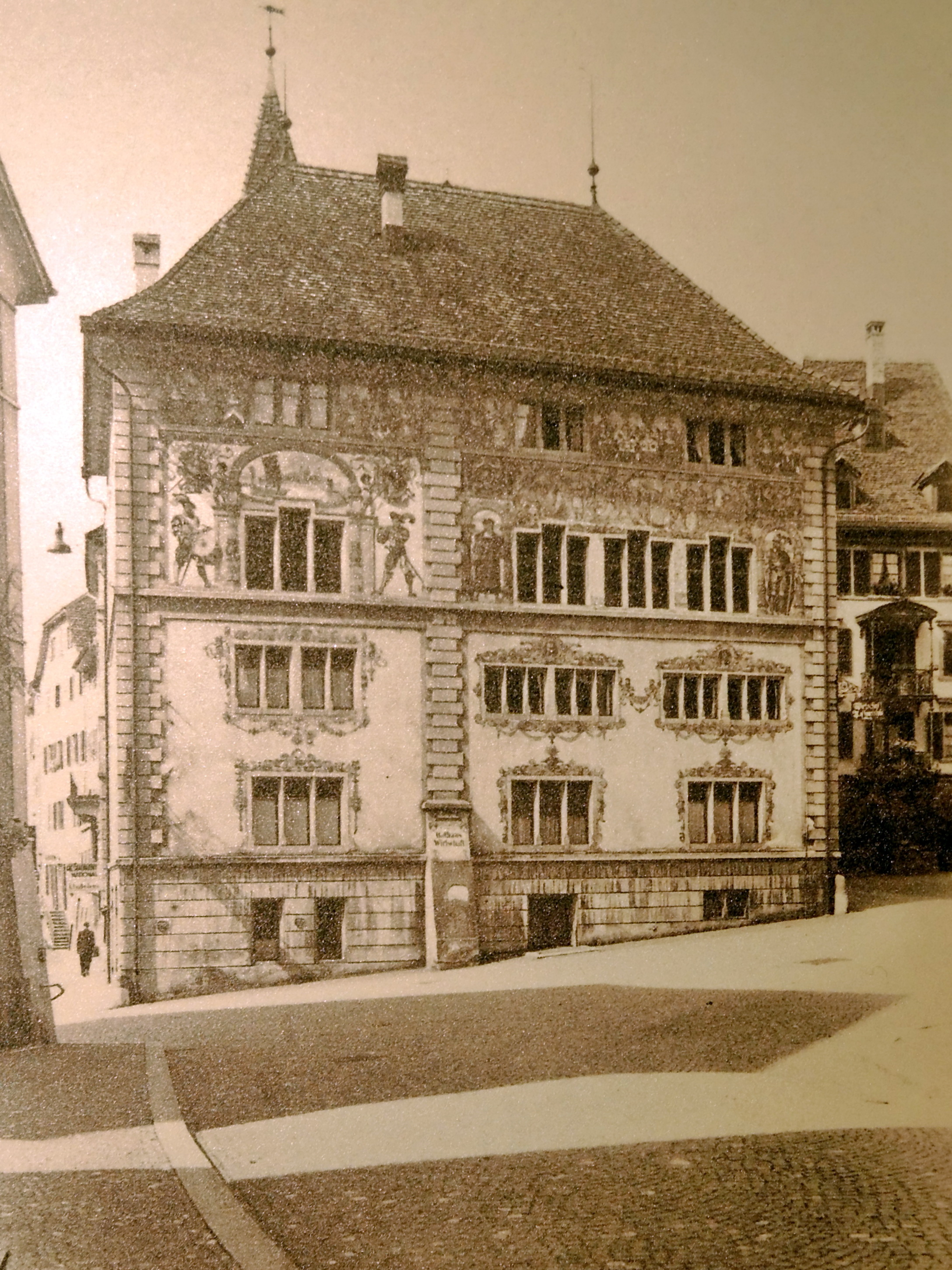 Collection of the Stadtmuseum) in Rapperswil (Switzerland) : Rathaus Rapperswil, facade painting, photographed from Hauptplatz towards Rathausstrassee, by Mr Max Diener ~1910.